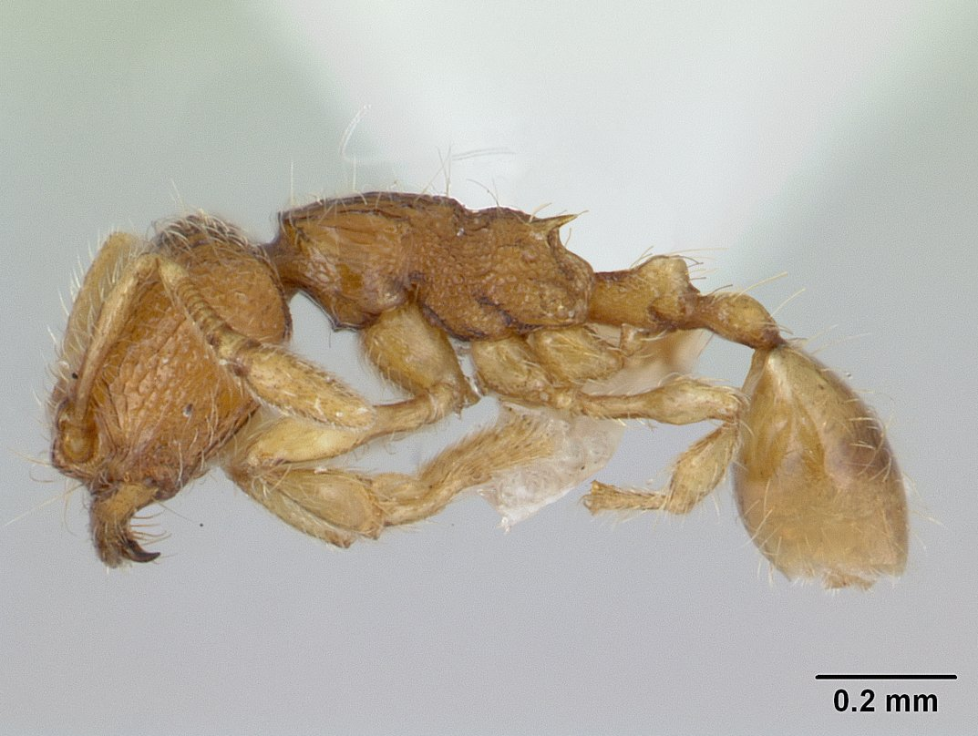 Profile view of ant Carebara urichi specimen casent0178633.